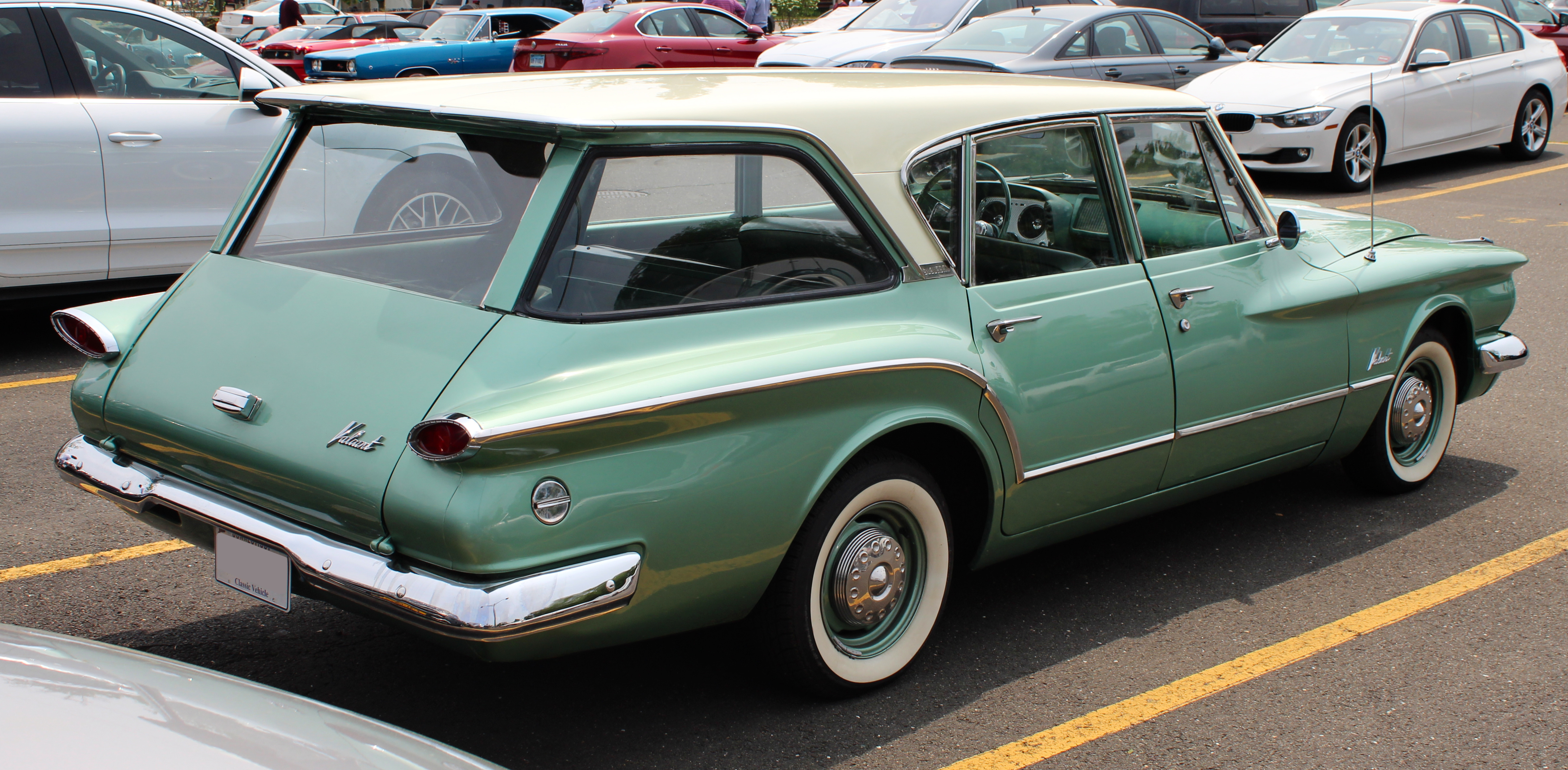 A 1960 Plymouth Valiant V-200 Suburban photographed in Greenwich Concours d'Elégance Hagerty parking lot, Connecticut, USA. Owner's page on StationWagonForums